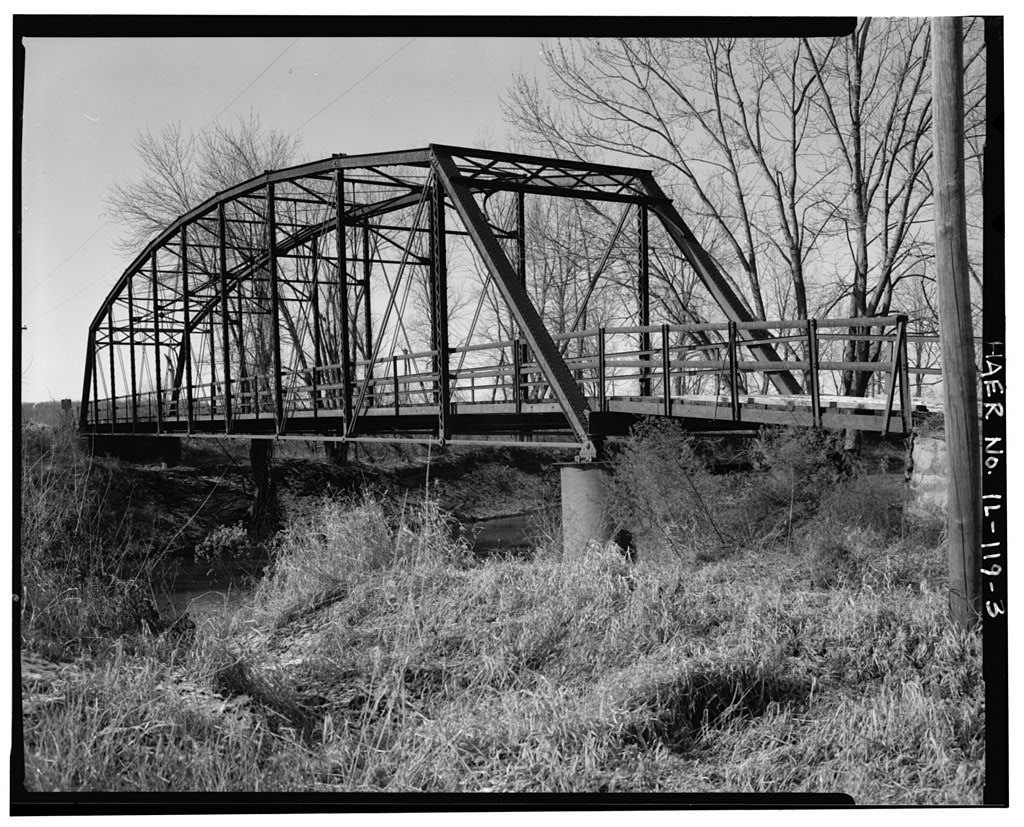 Oblique view of a 10-panel parker through truss bridge over the Spoon river in Fulton County Illinois, USA. Built in 1910, replaced in 1994. No longer extant.